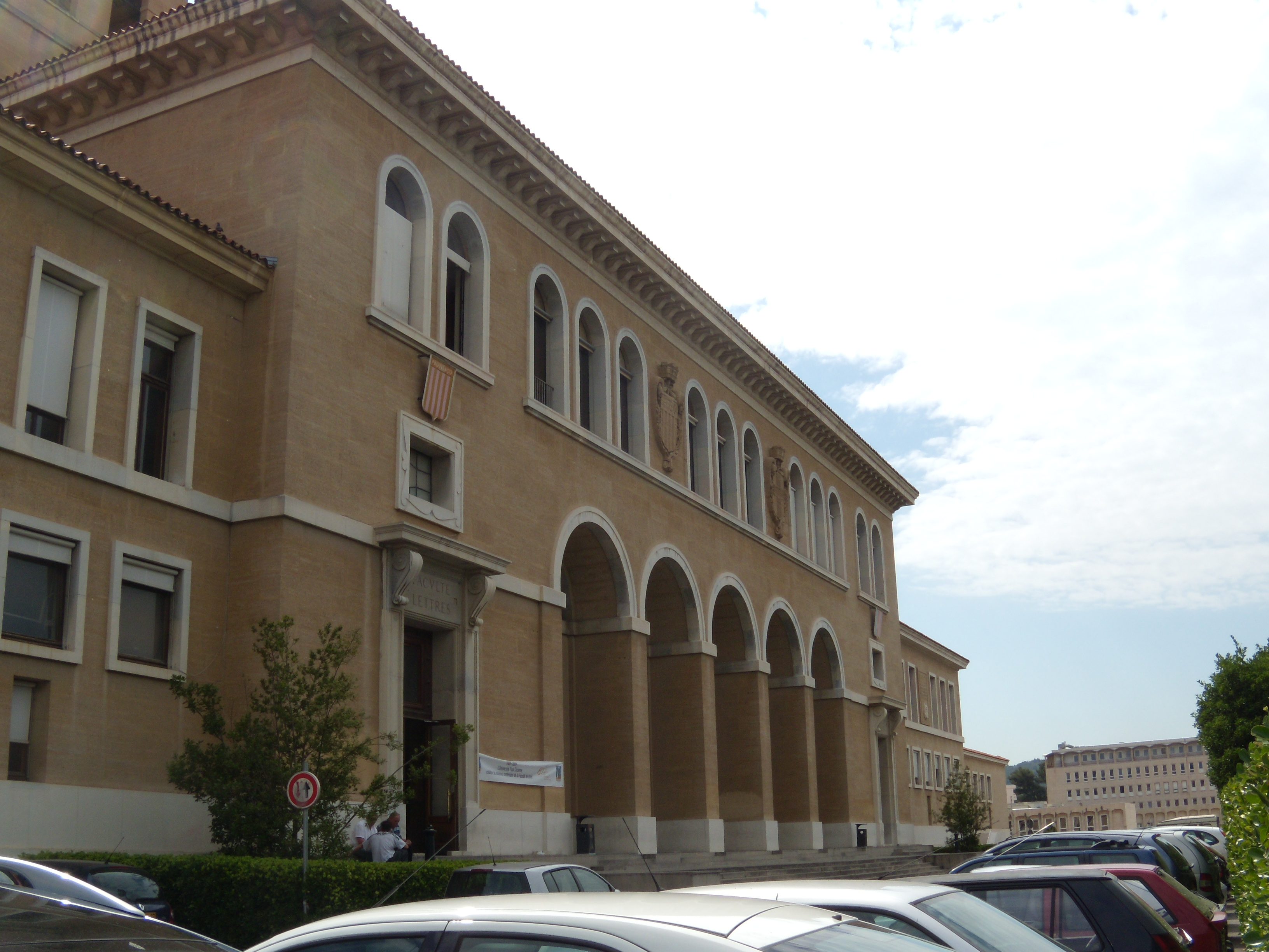 The Faculty of Law and Political Science of Aix-Marseille University in Aix-en-Provence, France.